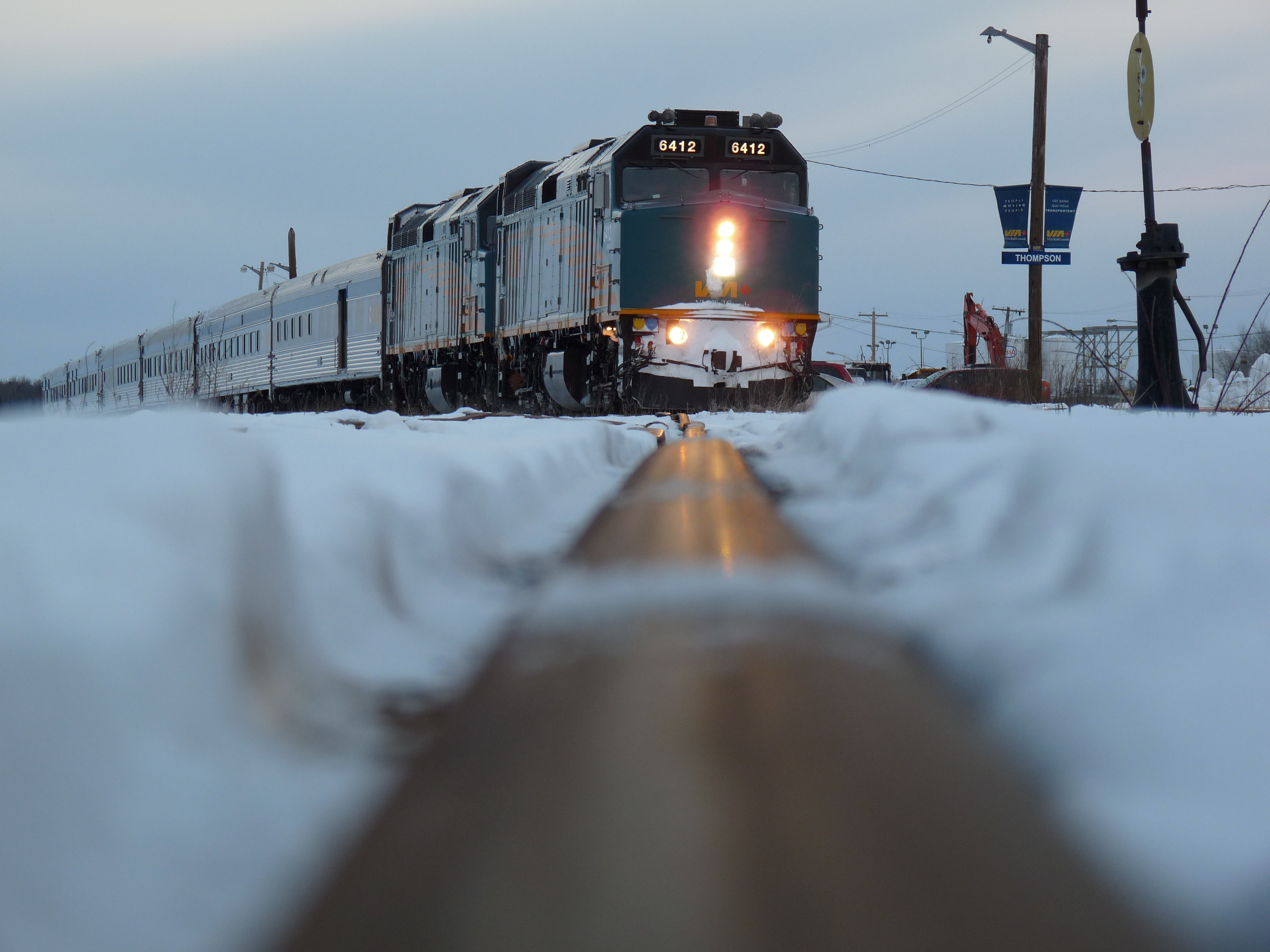 Hudson Bay Line train viewed from an icy rail at Thompson, Manitoba